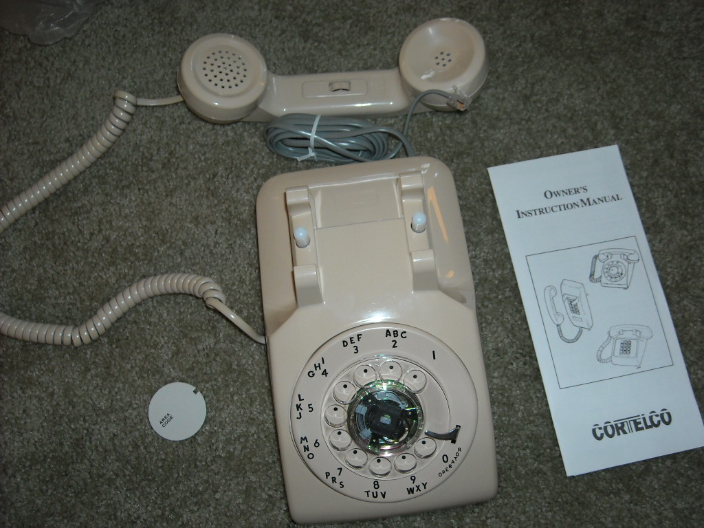 From my own collection. One of the last of the model 500s made as Cortelco stopped production at the end of 2006. This unit has never been used.